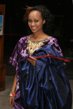 Miss Kenya 2007 - Catherine Wainaina in Miss World 2007, Sanya, China